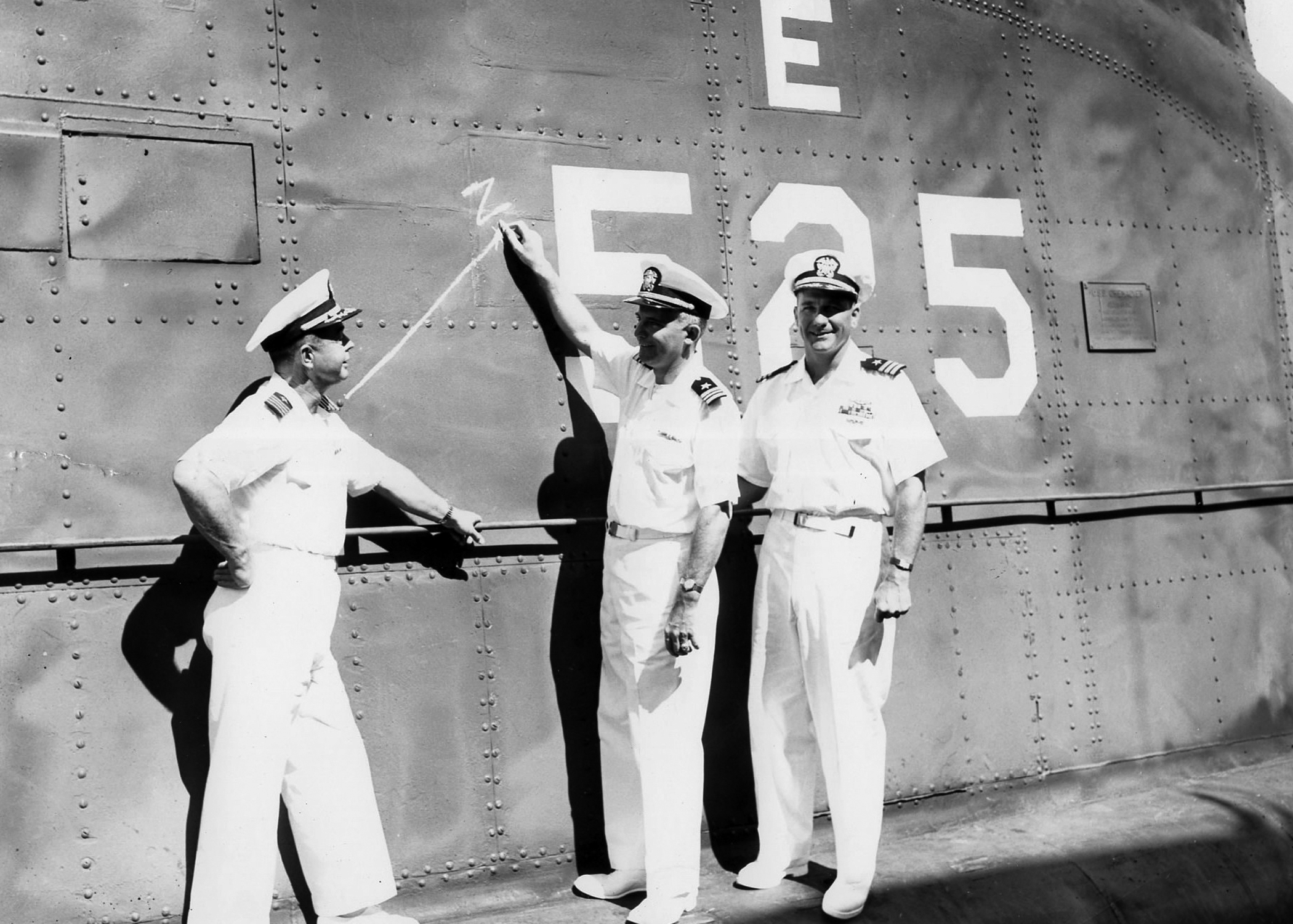 090529-N-0000X-060 KEY WEST, Fl .- In this undated file photo Lt. Cmdr. Ted Davis, center, marks a "Z" on the sail of the Tench-class diesel submarine USS Grenadier (SS 525), as Commander Submarine Squadron 12 Capt. Fritz Harlfinger, lef, and Commander Submarine Division 122 Cmdr. Brez Betzel look on. Davis was able to claim the mock "Z" after tracking a Soviet Zulu-class submarine for more than 18 hours, leading to the first documented evidence that the Soviet Union was conducting submarine operations in the Atlantic Ocean. The event was an intelligence coup for the U.S. military. (U.S. Navy photo/Released)